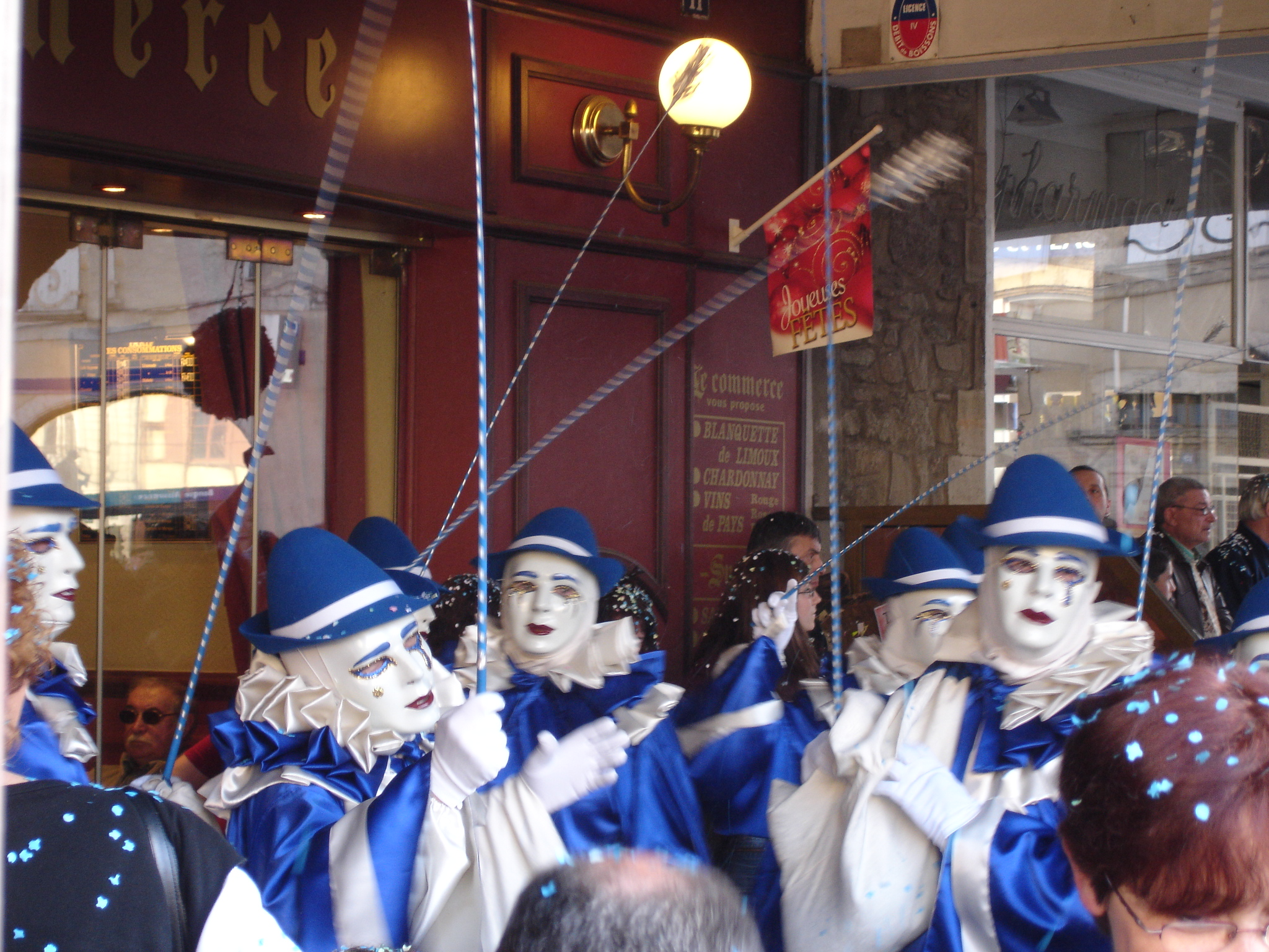 France, Aude (11), Limoux Carnival